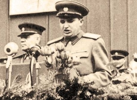 „Scînteia” newspaper, public domain of the People's Romanian Republic 1954